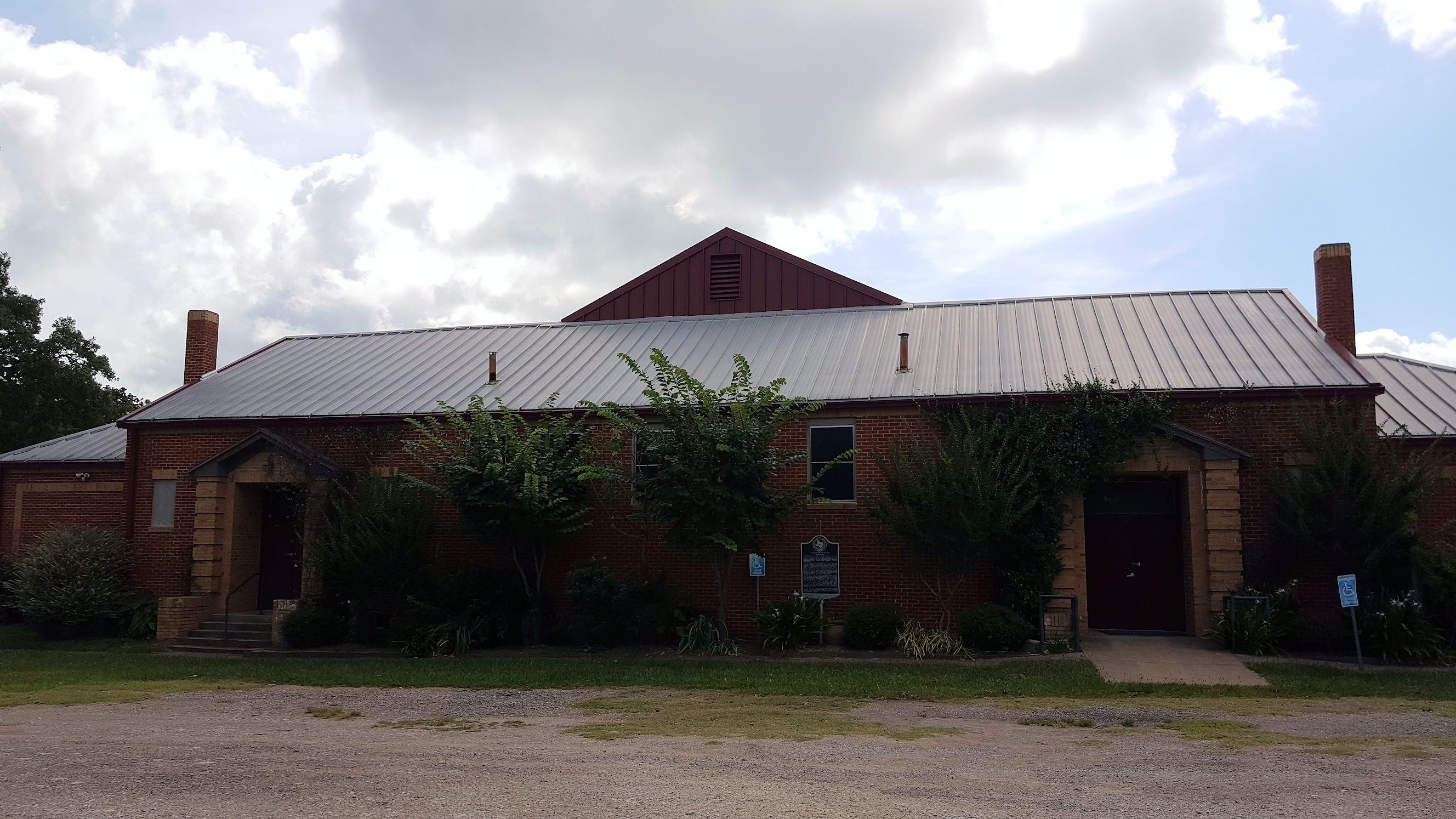 Lovelady School Site establishing shot